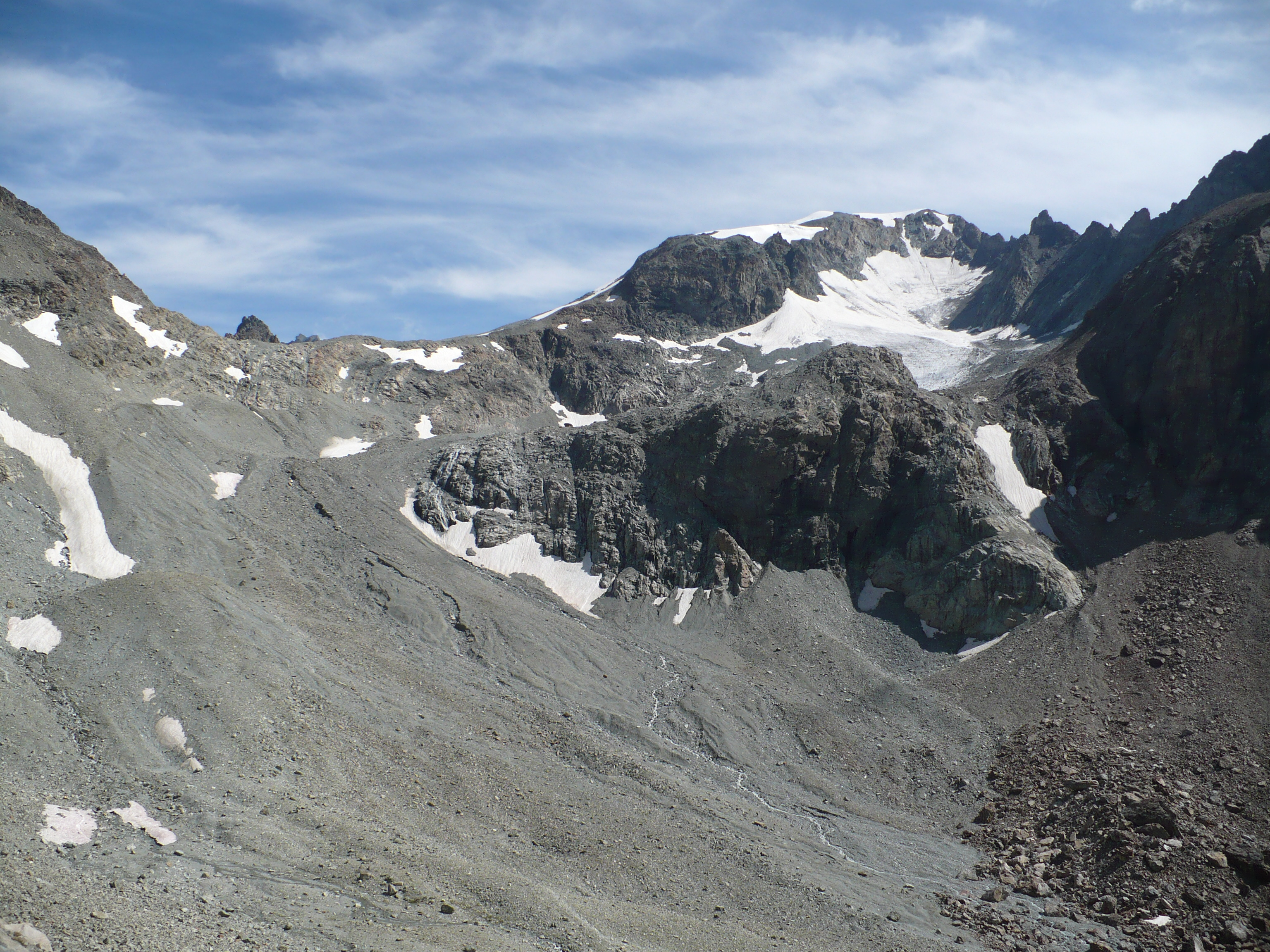 Col Collon